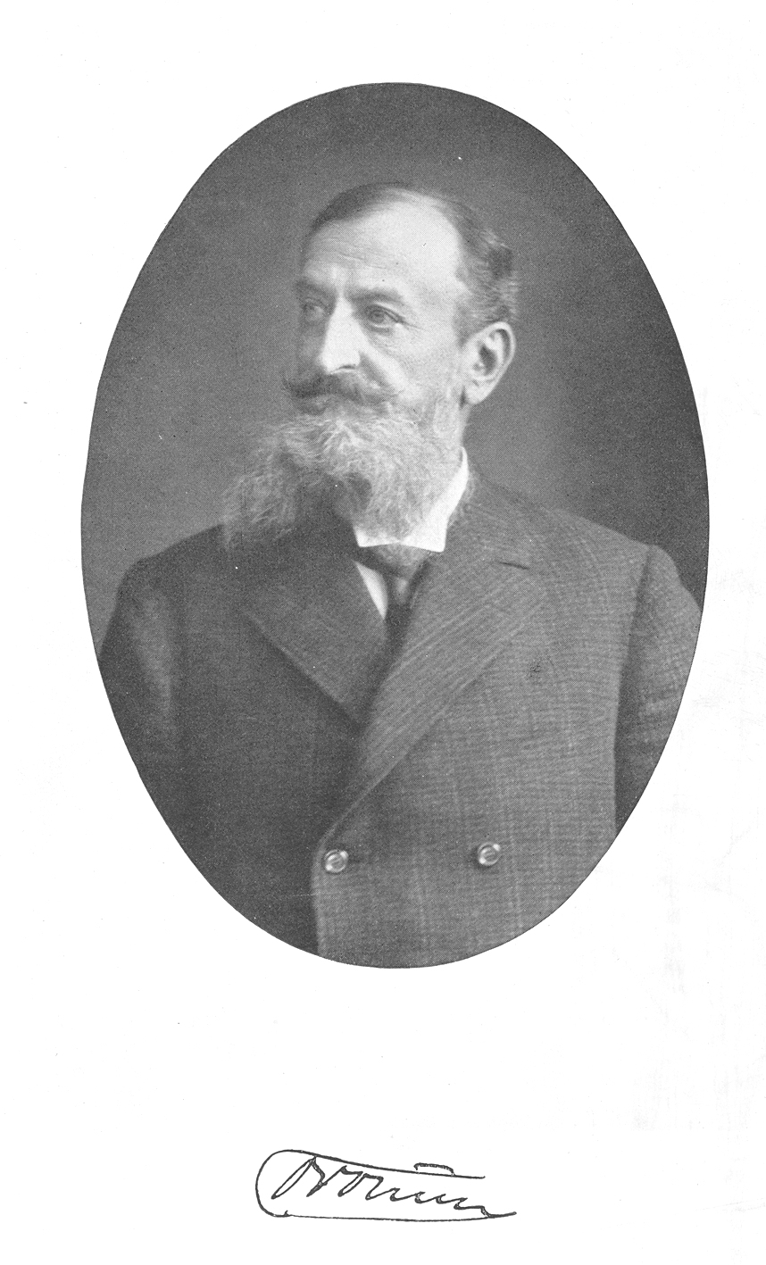 Hermann Julius Otto Soltmann